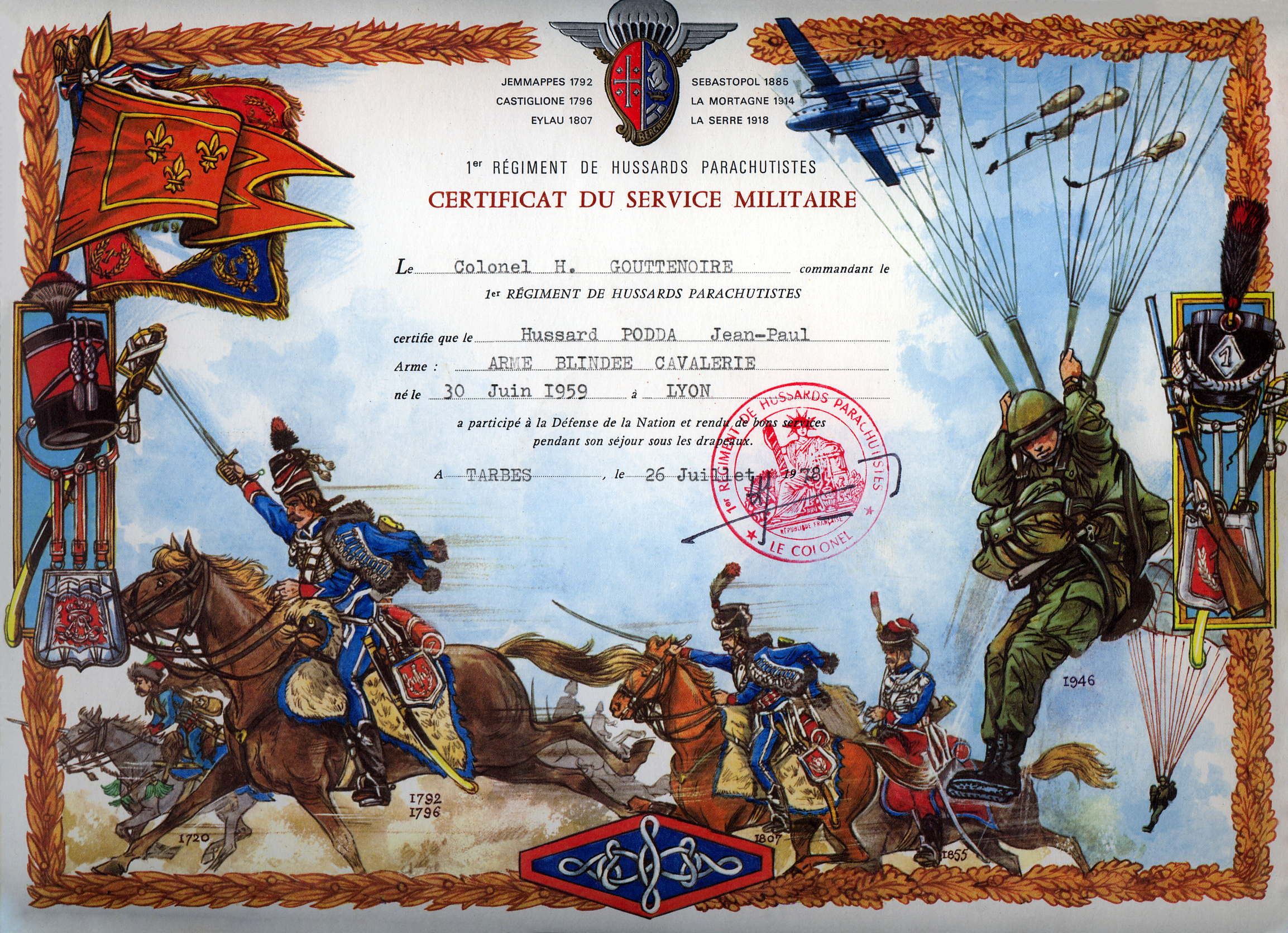 Grant of certificate of military service. This image has a document issued by the French government: the copyright or copyright does not apply to both original and copy.